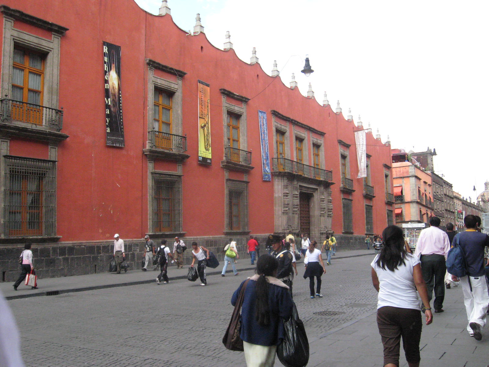 Museum of the Secretariat of Finance and Public Credit on Moneda Street near the Zocalo in the Centro of Mexico City